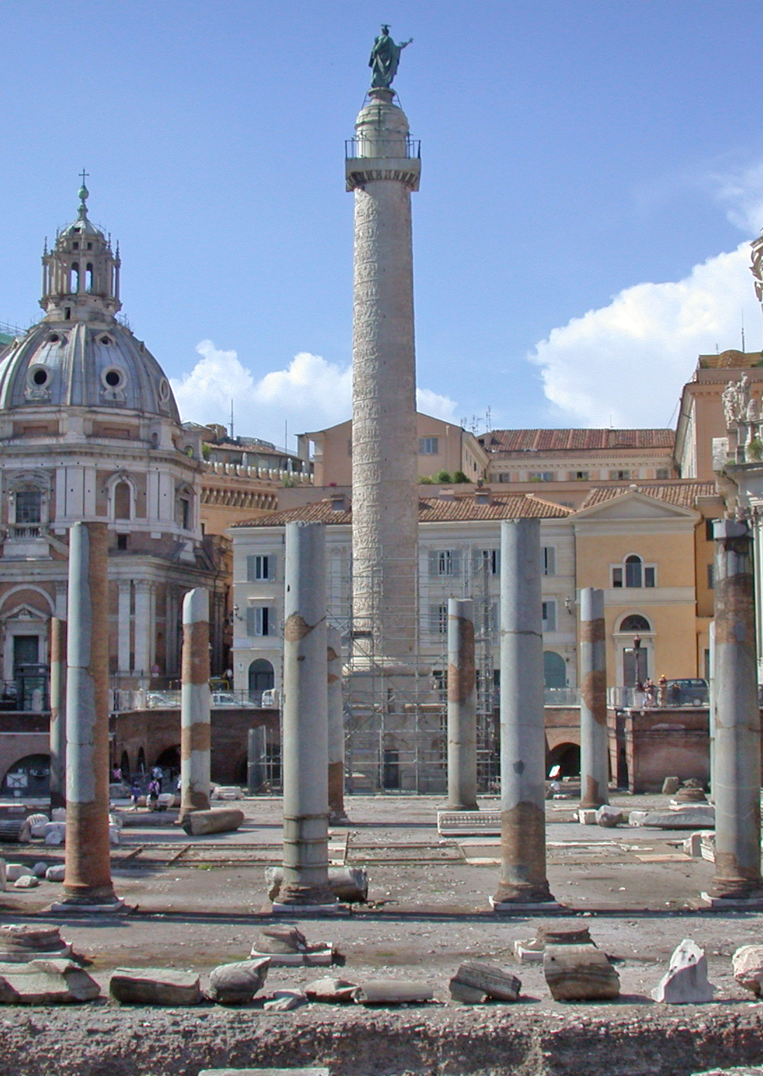 Trajan's Forum, Trajan's Column and Basilica Ulpia in Rome. Personal photo (september 2005) by MM in it.wiki.